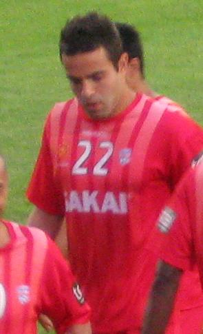 Diego warming up before the A-League match against the Newcastle Jets on 27 September 2008, at Hindmarsh Stadium.